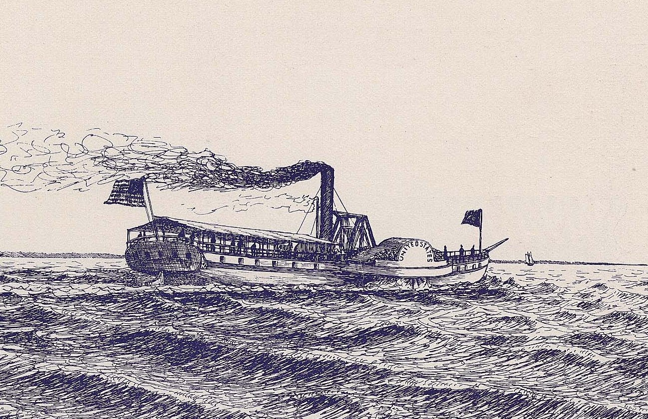 Paddle steamer United States (1821) underway.